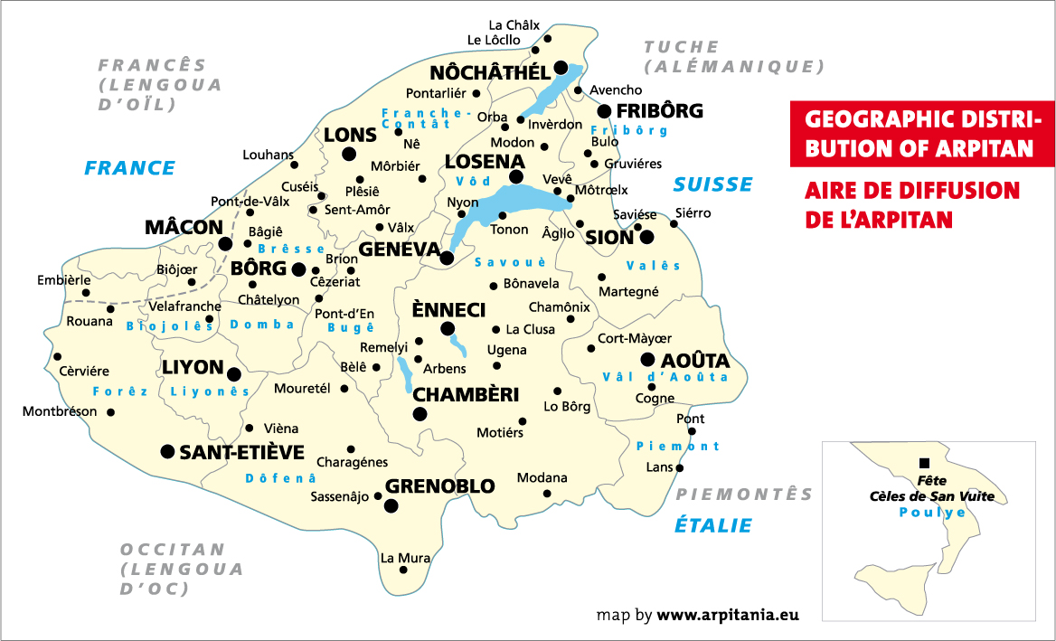 Arpitan (Franco-Provençal) language map with placenames in Arpitan language.